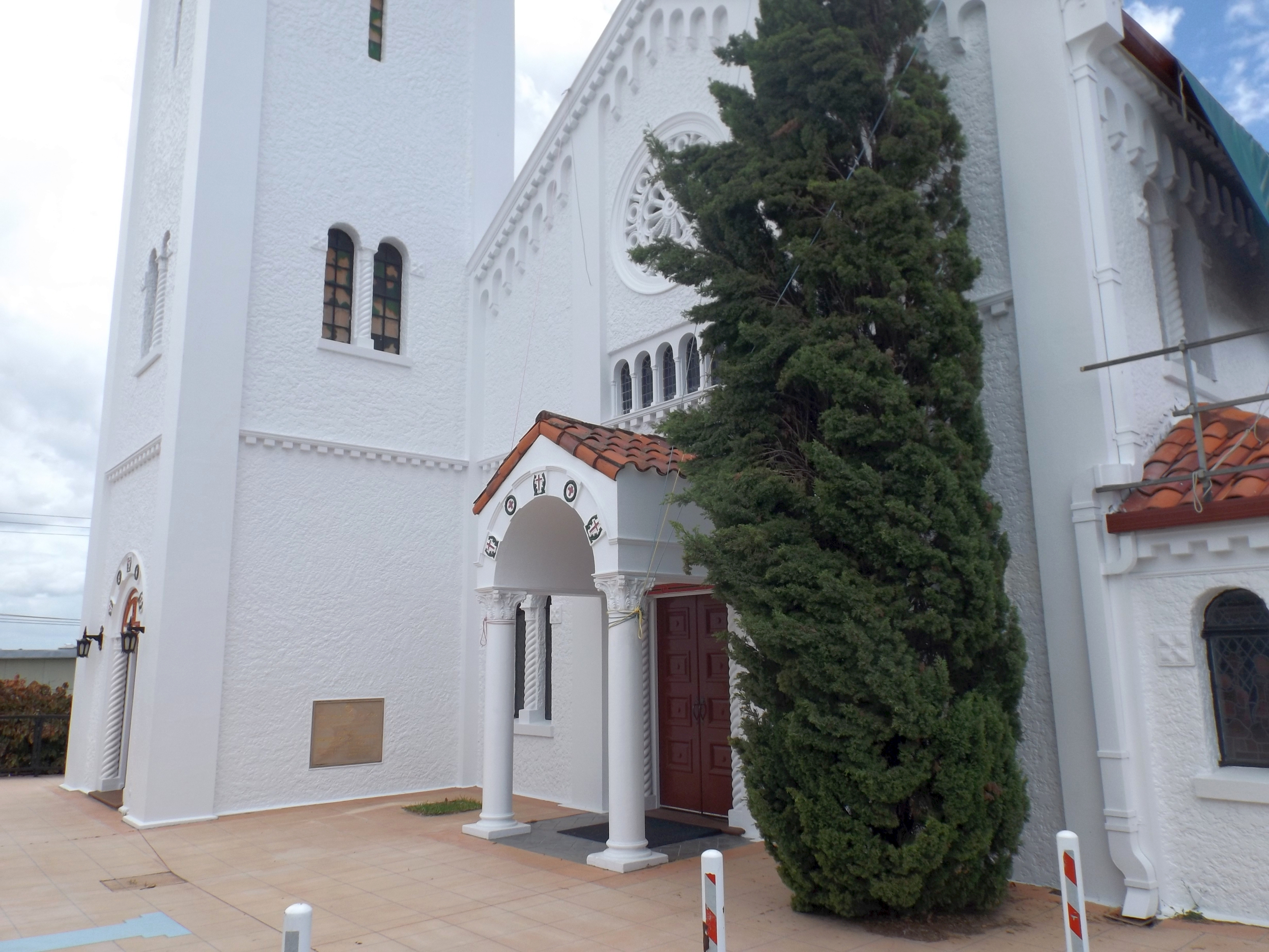 Photo of entrance to the Holy Trinity Anglican Church, Woolloongabba, Brisbane, Queensland, Australia.